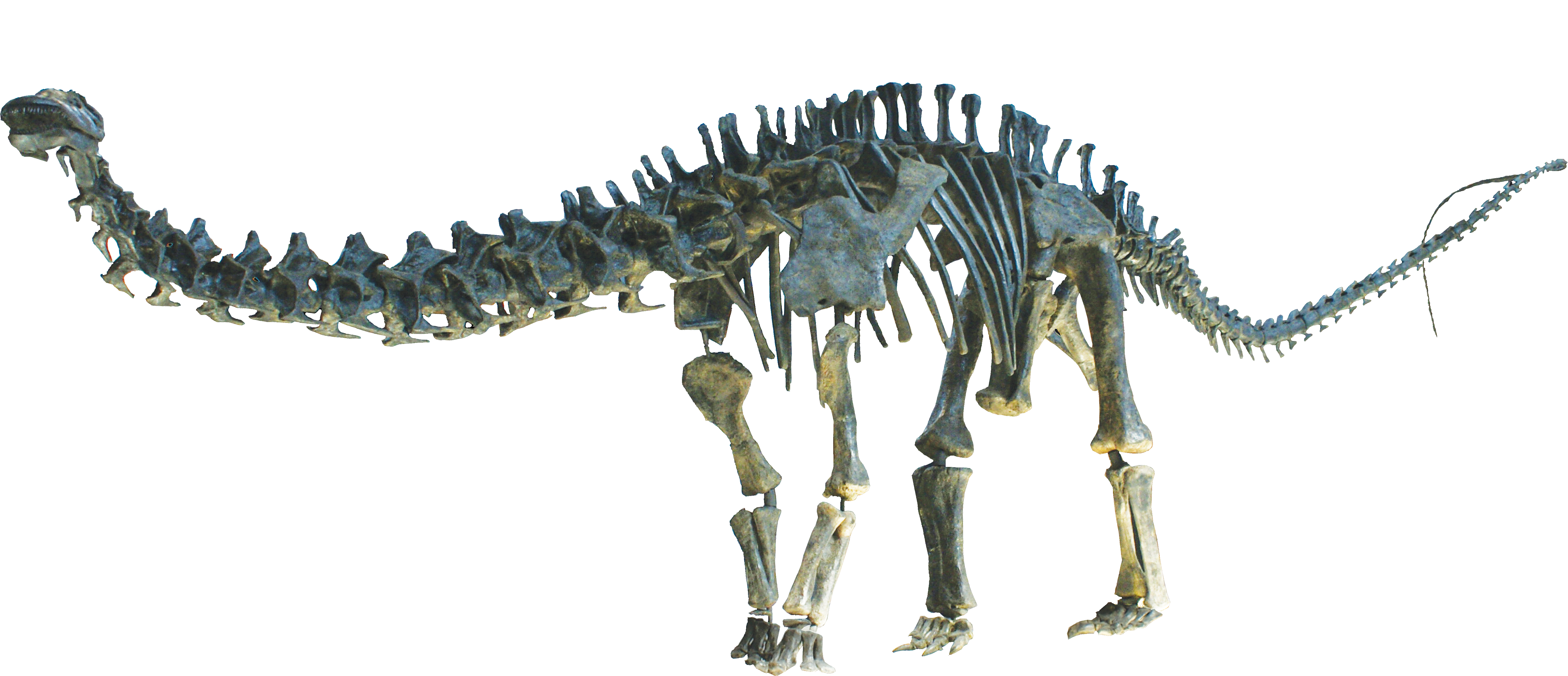 Cast skeleton of Apatosaurus parvus (formerly excelsus) based on the University of Wyoming Museum specimen UWGM 15556, produced by Triebold Paleontology Incorporated